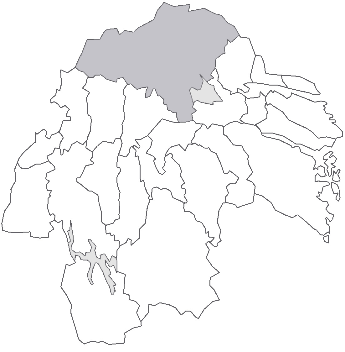 Map describing the location of Finspånga län Hundred in Östergötland County, Sweden.